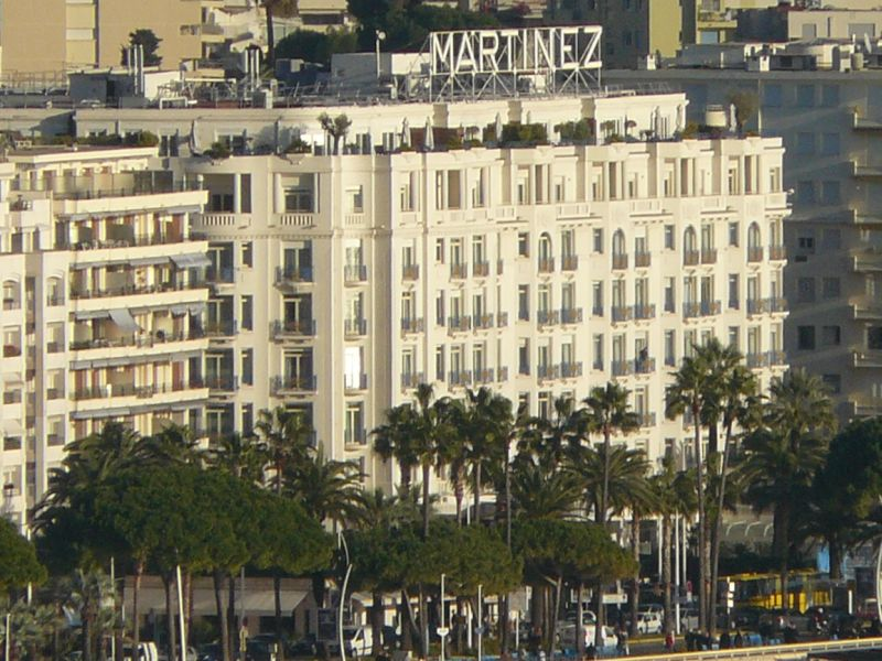 Hotel Martinez, Cannes